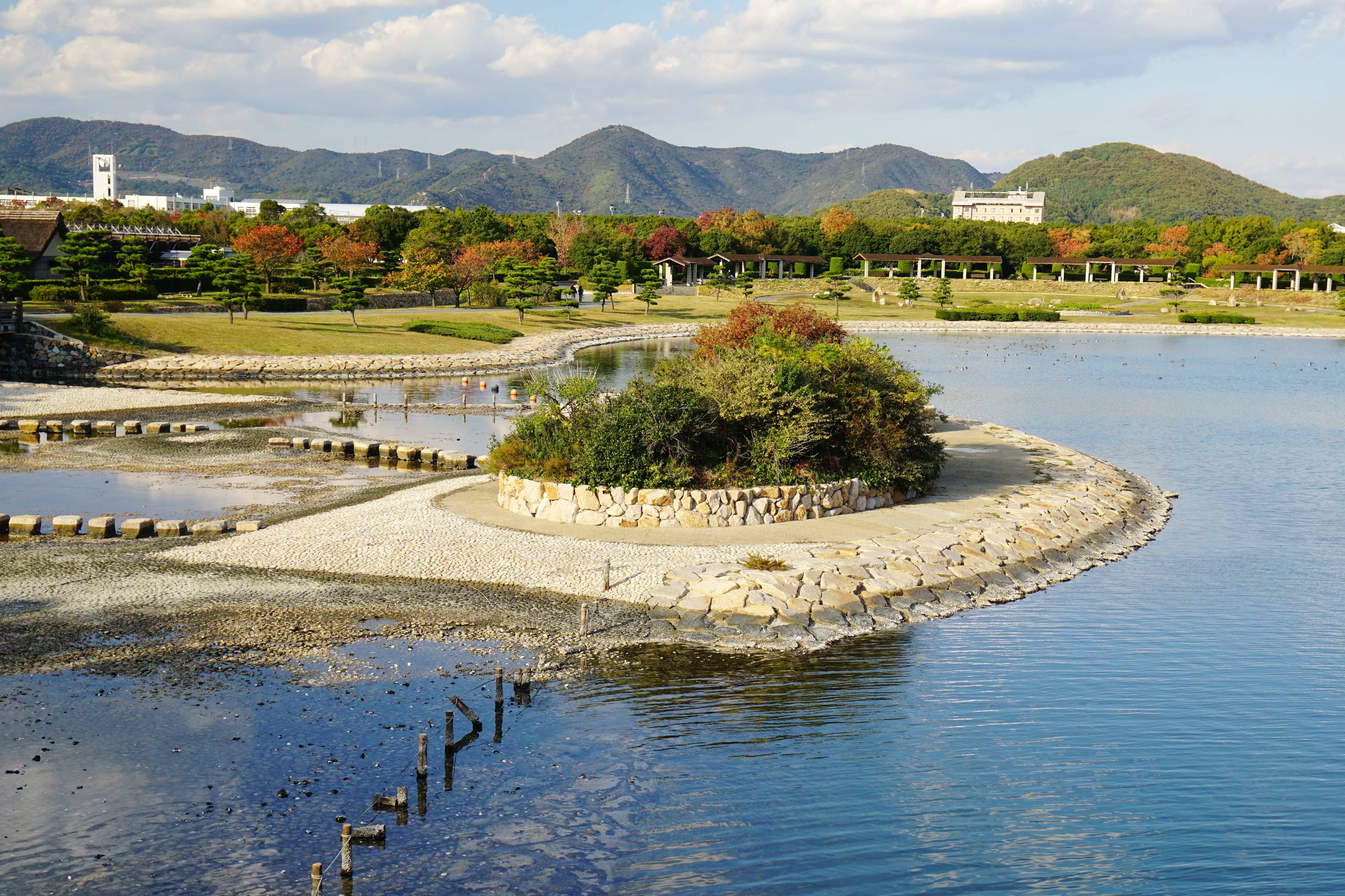 Hyogo prefectural Ako Seaside Park in Ako, Hyogo prefecture, Japan.